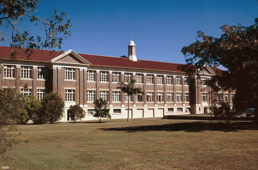 Townsville and District Education Centre (formerly Townsville West State School) and Memorial Gates, 1998